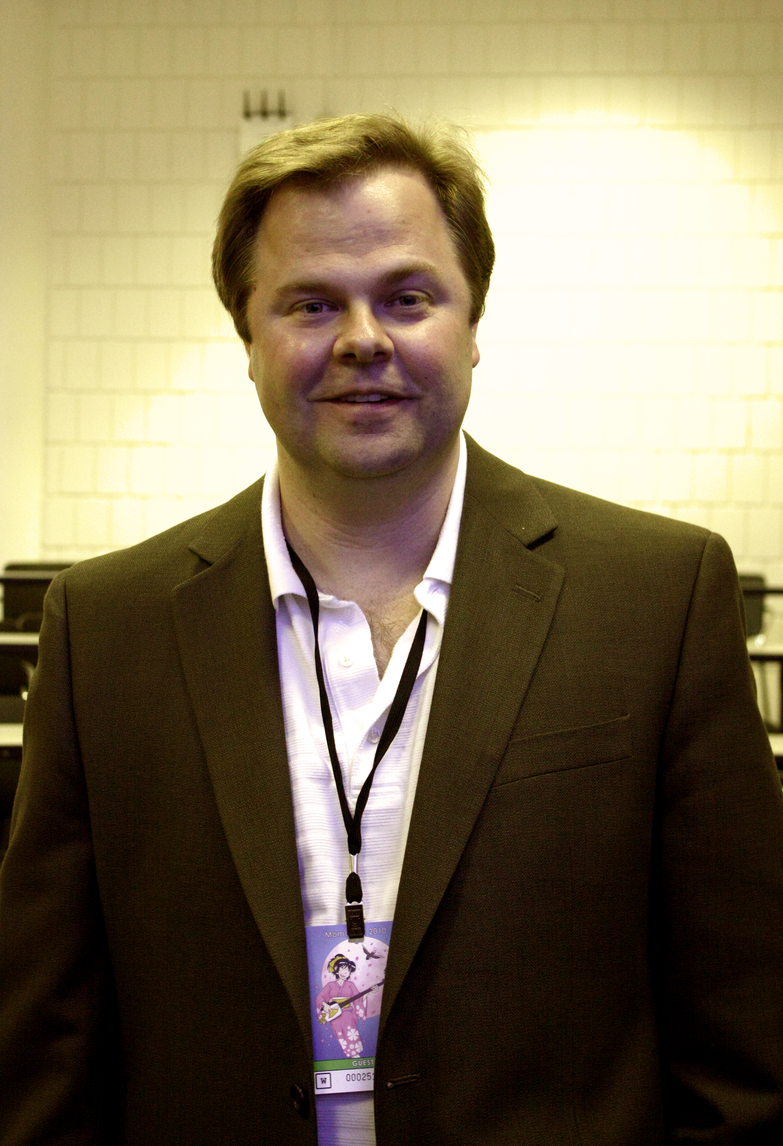 Chris Klaus following a panel about virtual worlds at Momocon 2010